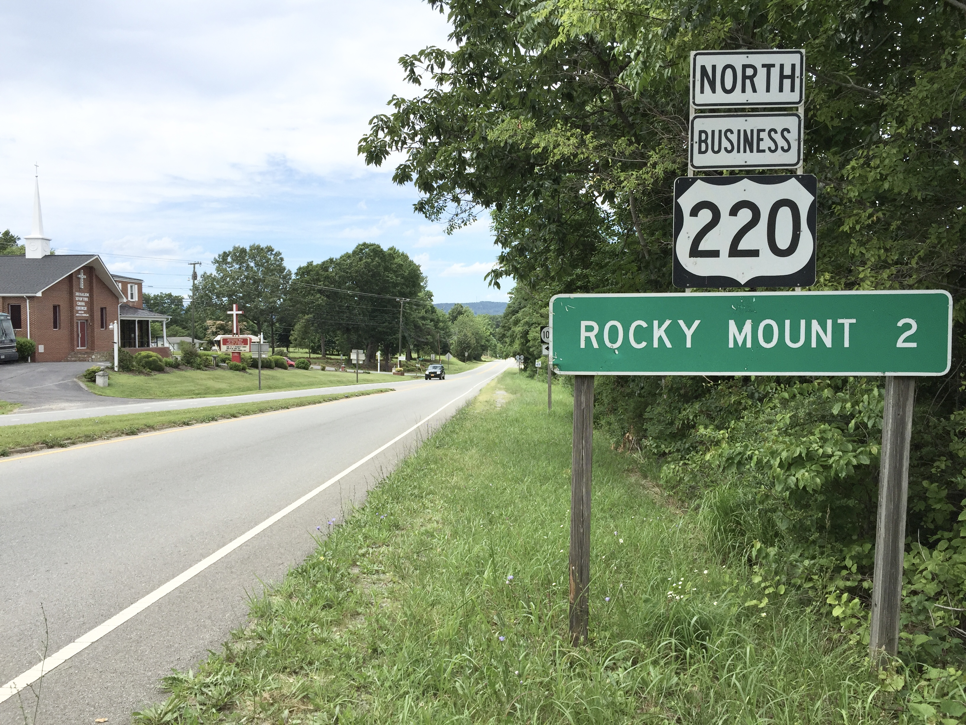 View north along U.S. Route 220 Business (Main Street) at Bellflower Lane in Henry Fork, Franklin County, Virginia